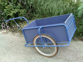 bicycle trailer